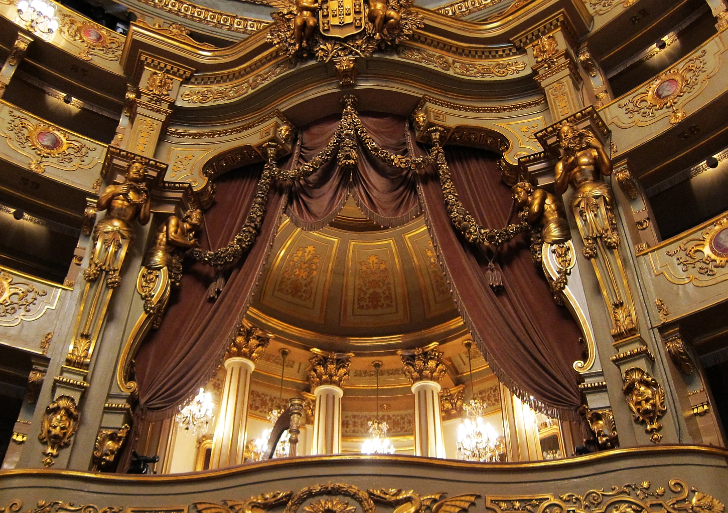 As any sales assistant pushing gold-plated hi-fi connectors will explain to you, music always sounds better if there is a lot of gilding around the edges.